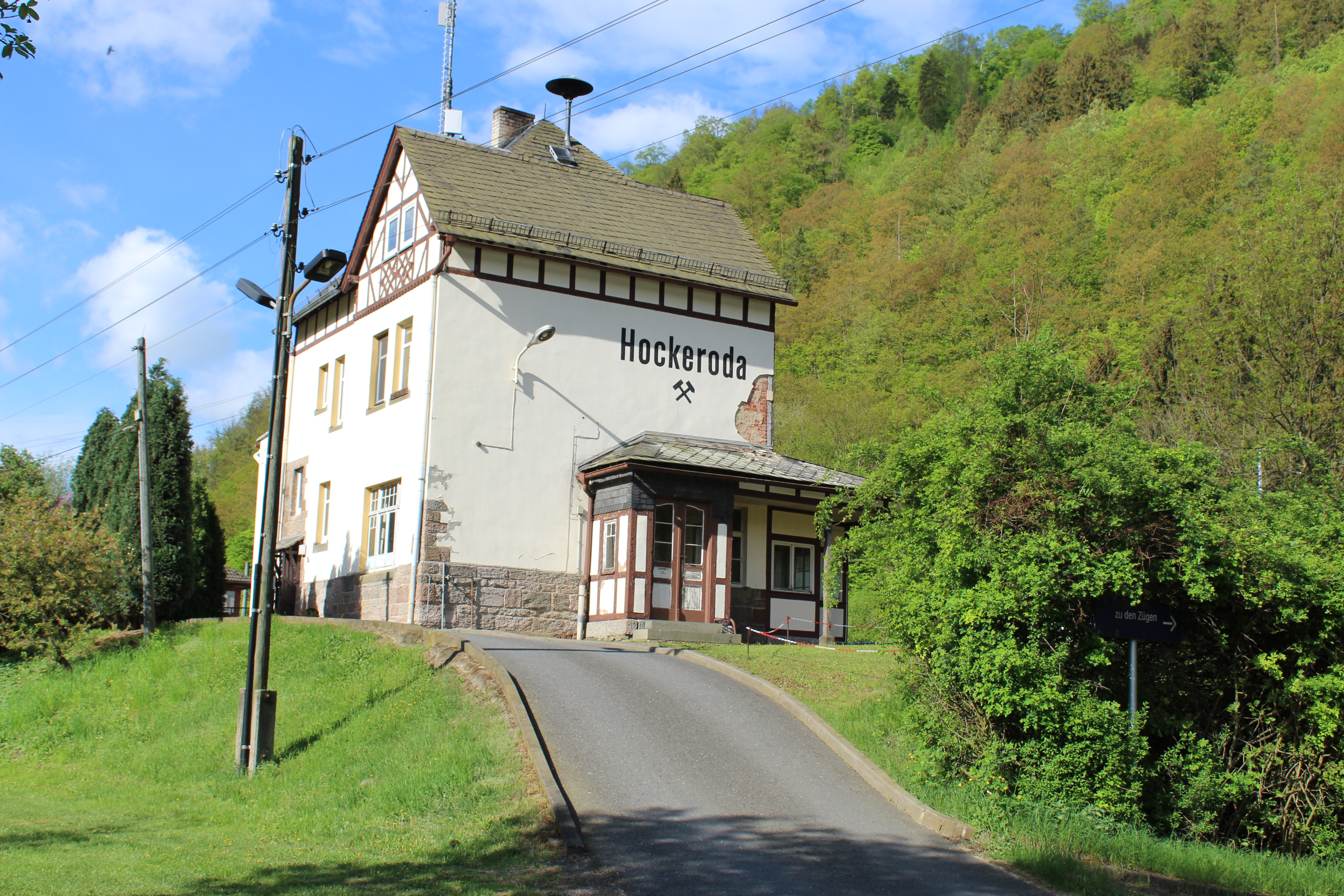 train station Hockeroda, station building